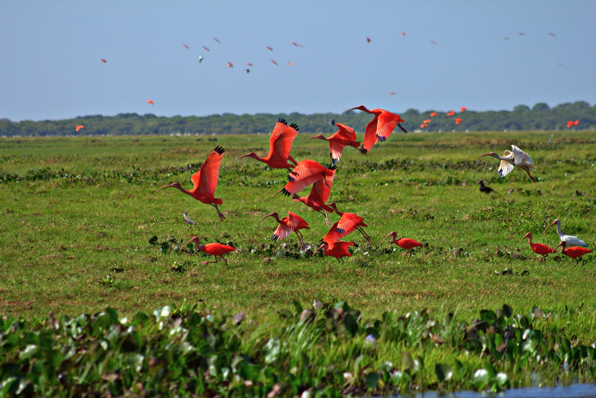 Scarlet Ibis | Corocoras rojas (Eudocimus ruber)